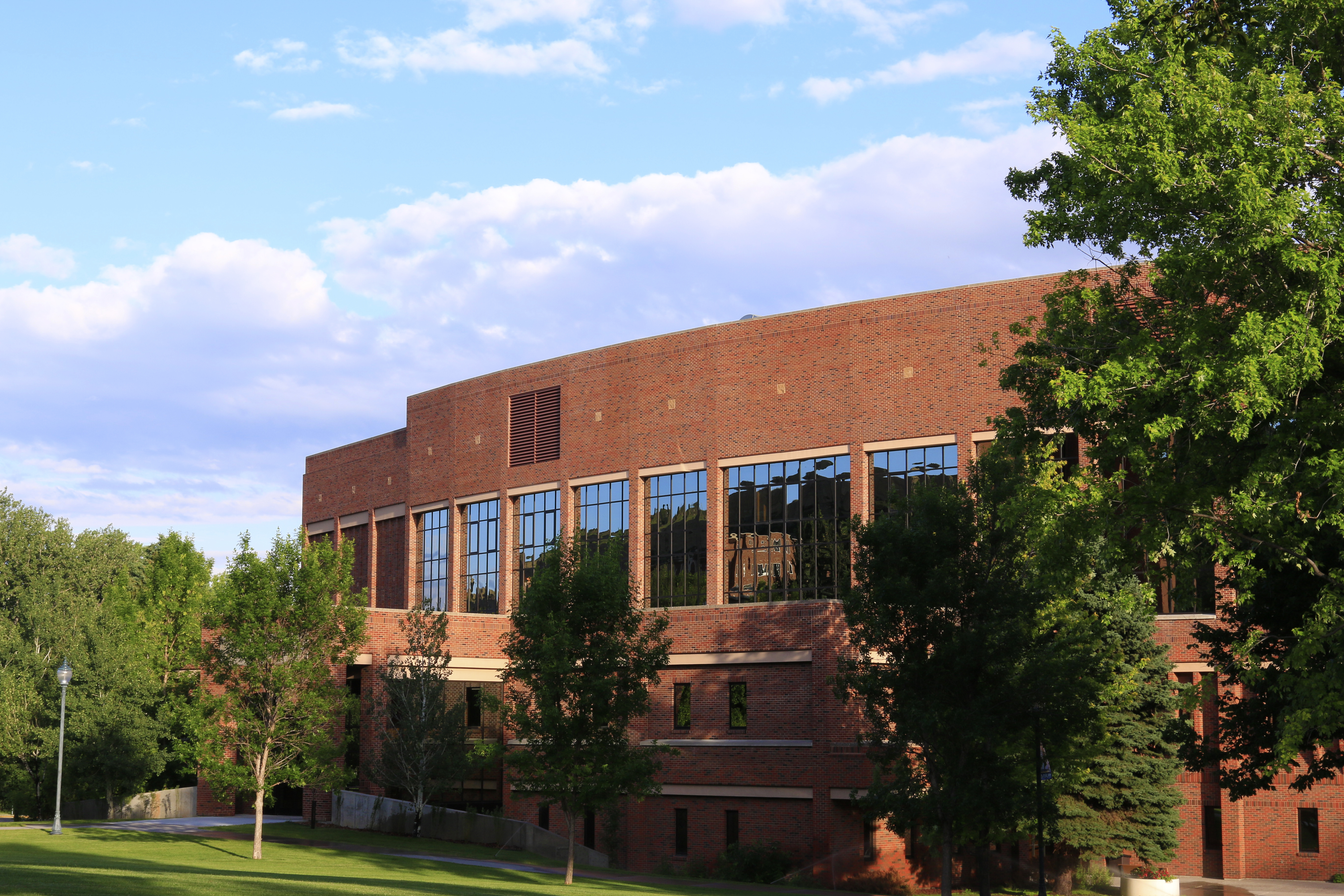 MSUB College of Education